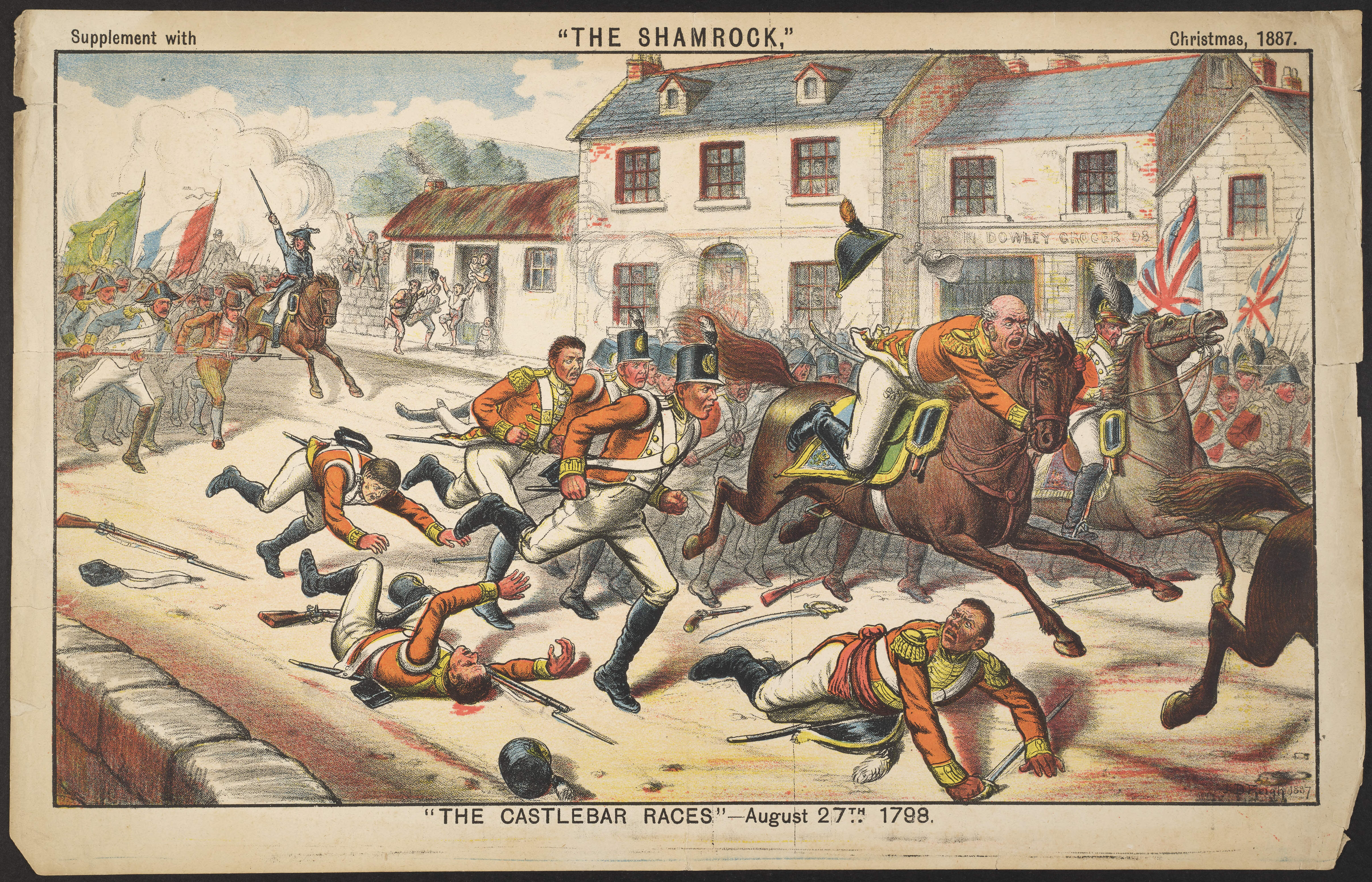 The races of Castlebar. 1798.